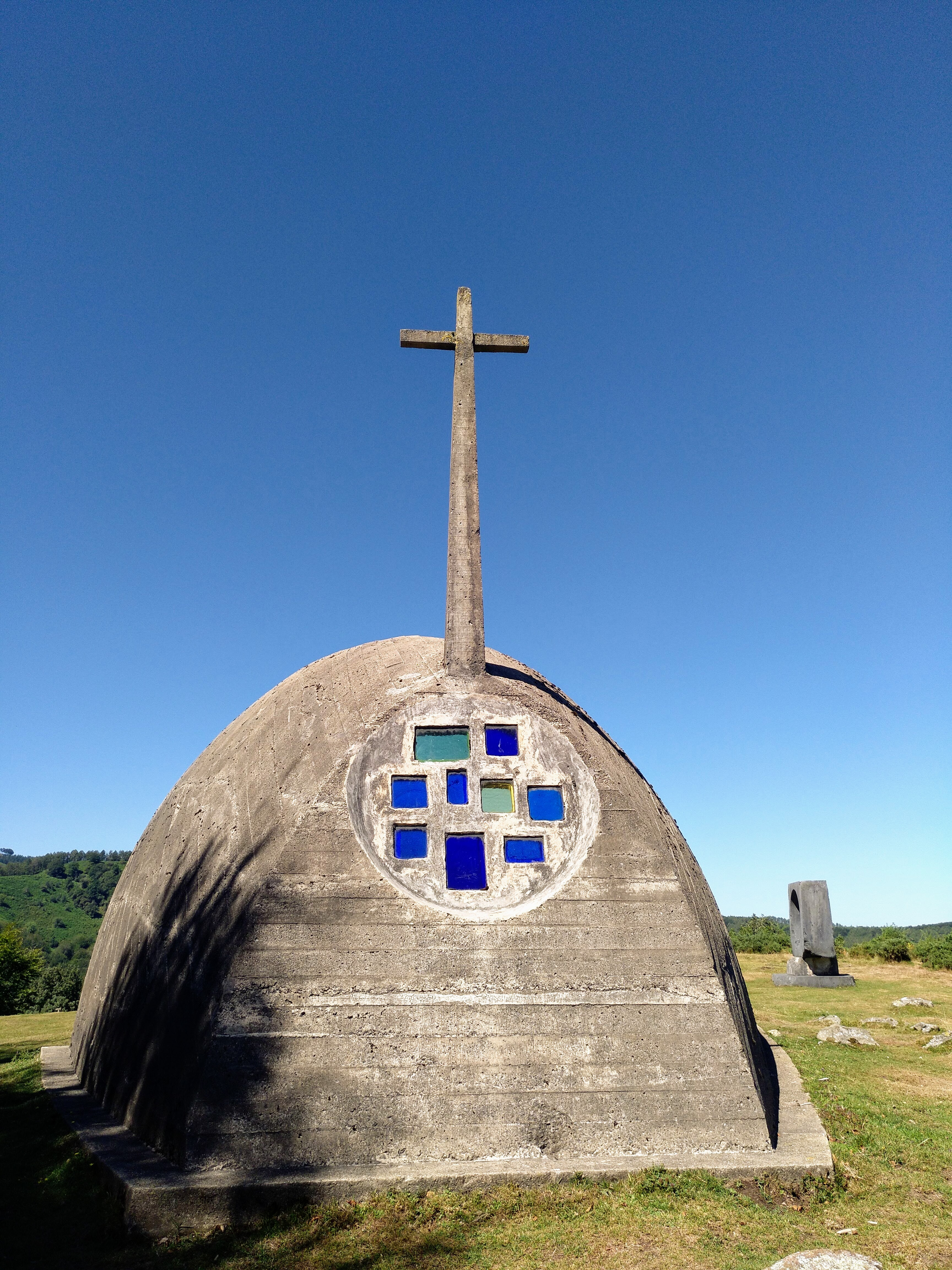 The chapel of architect Lluís Vallet above the Agina